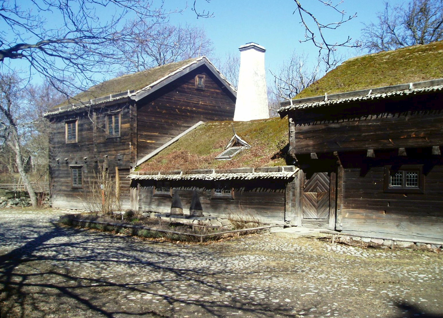 Kyrkhultsstugan typical house from Blekinge County, Sweden, now at Skansen Stockholm